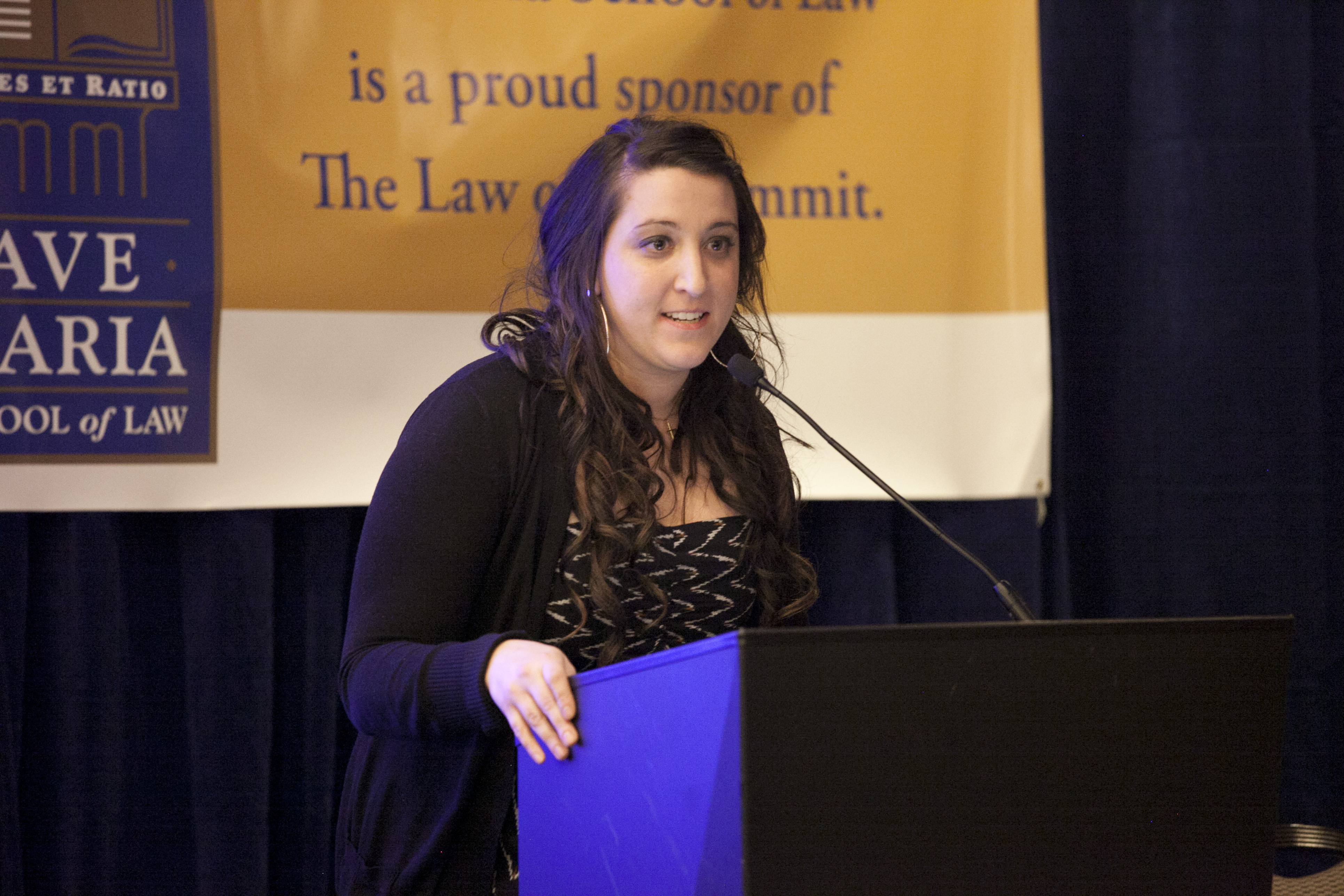 Alissa Golob, youth coordinator for Campaign Life Coalition, speaks to audience